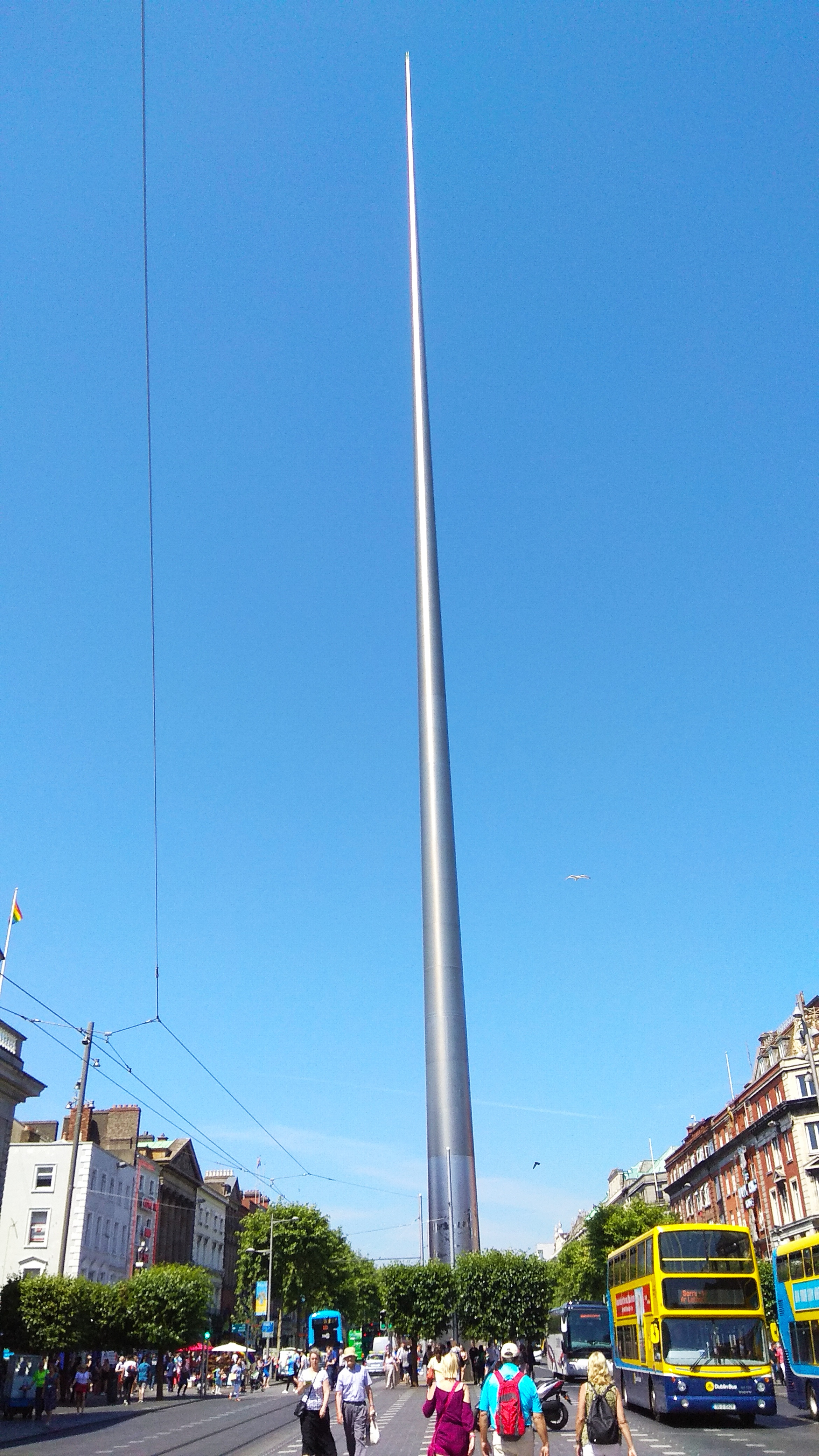 Spire of Dublin, Dublin